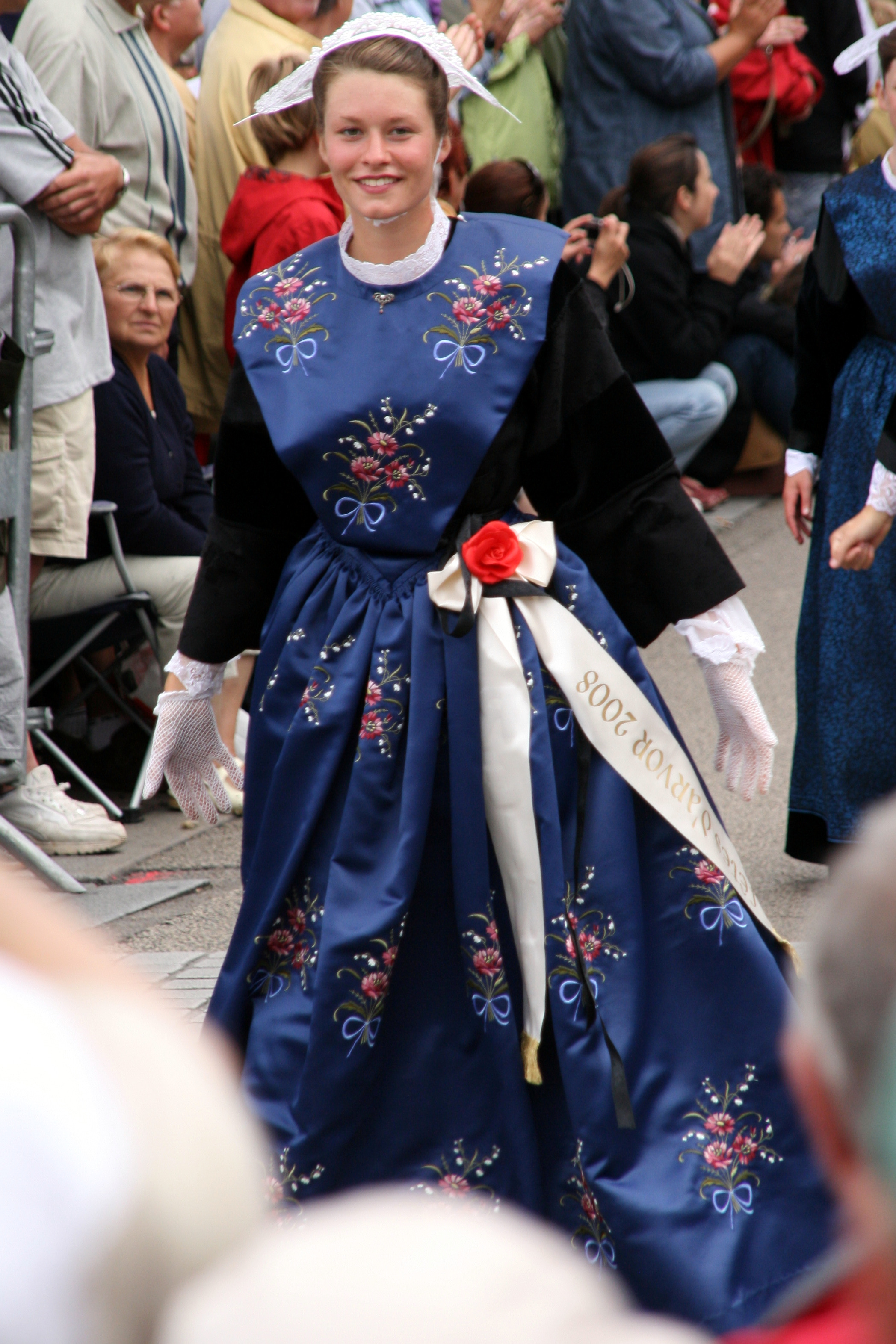 Bretonne in traditional costume during the inter-celtic festival of Lorient 2009. She's a dancer of the celtic circle "An Oriant" from Armor Argoat.